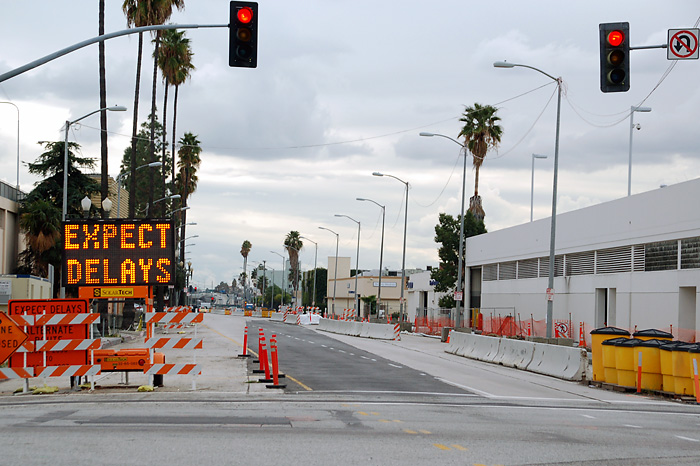 Construction of the Metro Expo Line light rail at Washington Boulevard and Flower Street, Los Angeles.